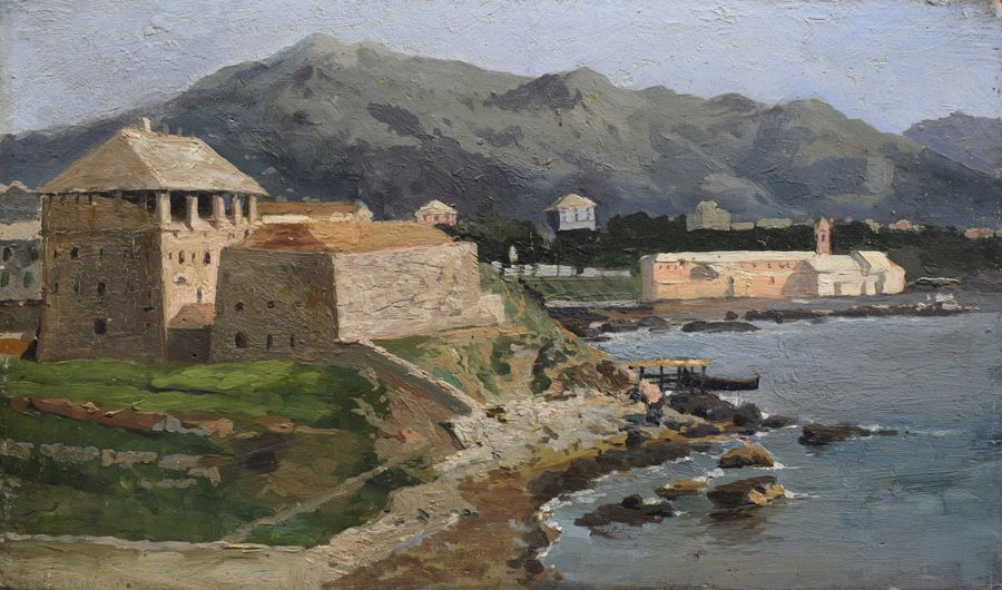 The San Giuliano Fort in Genova by Ernesto Rayper, oil on panel, 23 x 39 cm